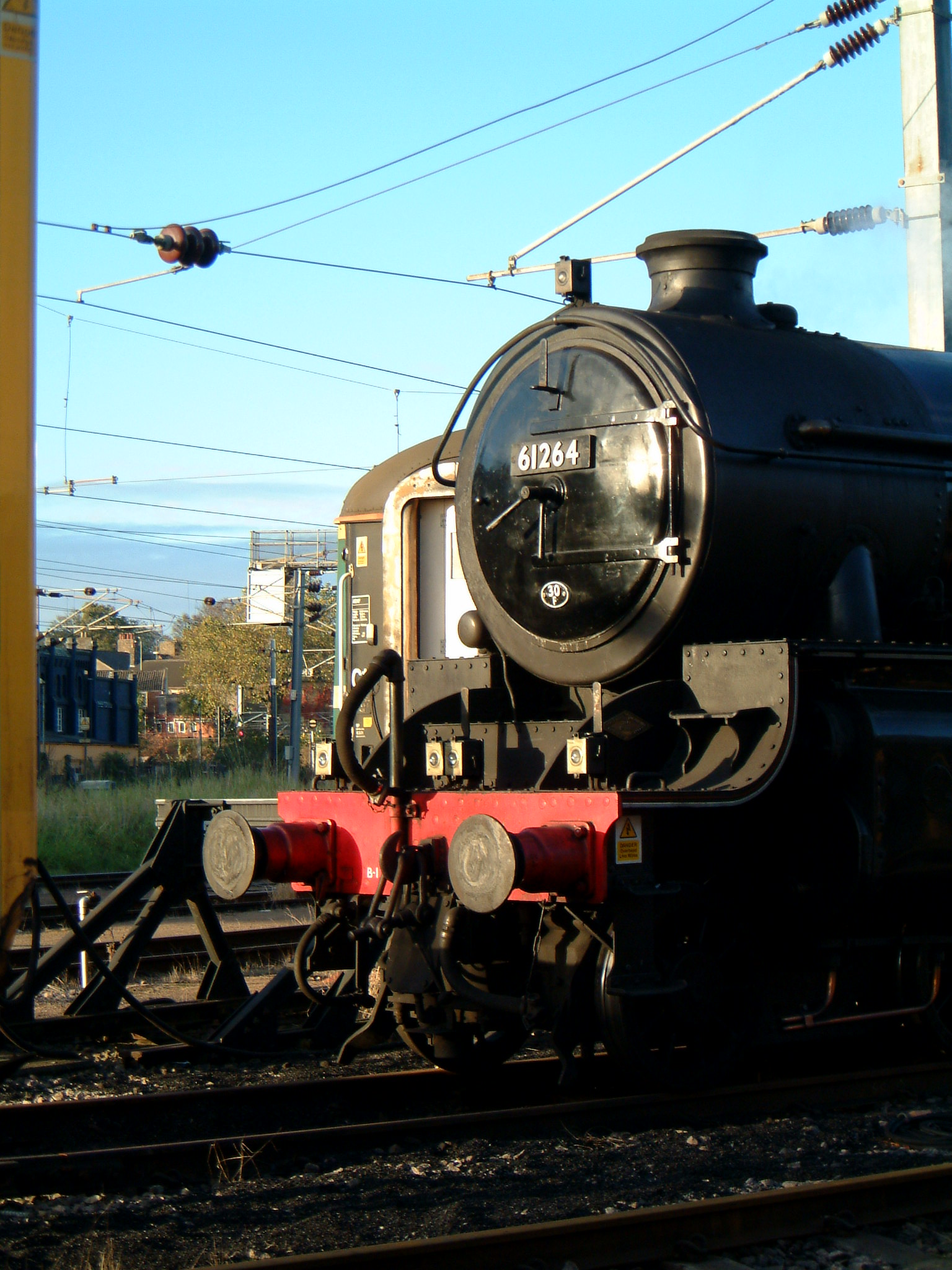 Steam locomotive No. 61264 (formerly 1264) at Norwich Crown Point depot.